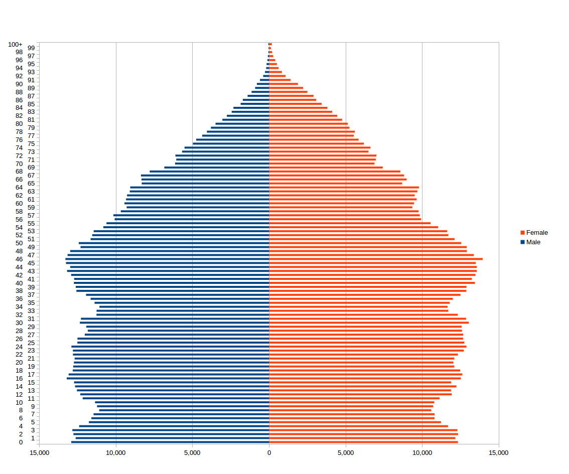 Population pyramid for Northern Ireland as at the 2011 census.